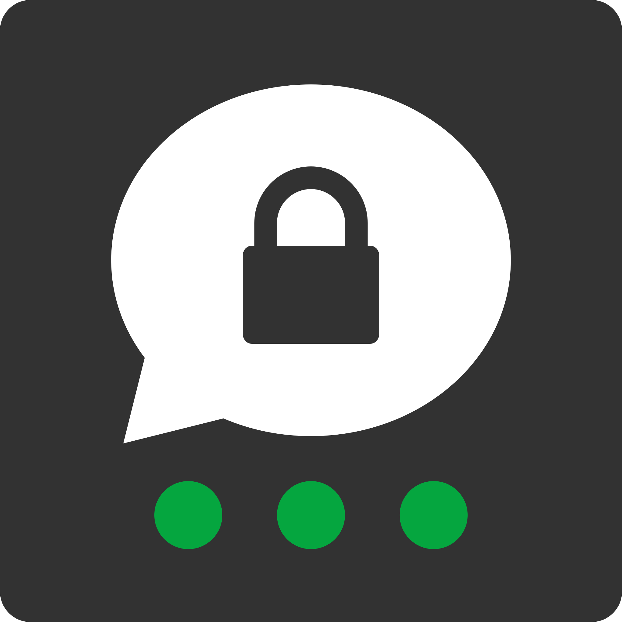 Threema logo